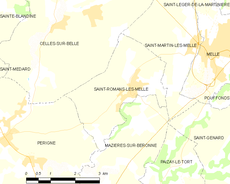 Map of French municipality Saint-Romans-lès-Melle